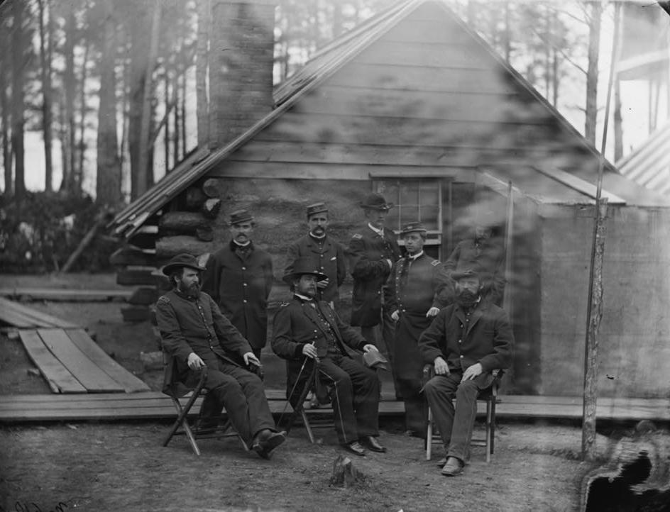 Brandy Station, Virginia. Gen. Rufus Ingalls and group.